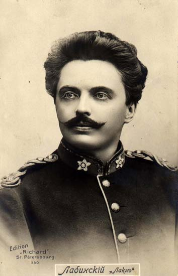 Photo of russian opera singer Andrey Labinskiy (1871-1941) in "Lakme"